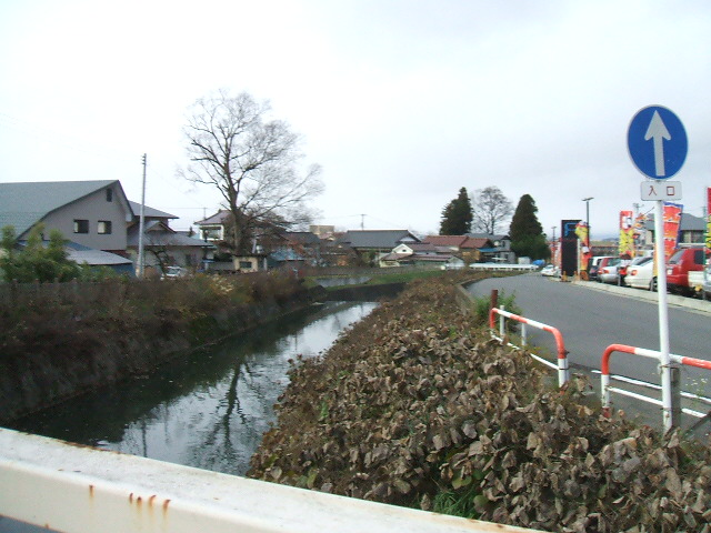 Fudogawa river at Ikkimachi-town, Aizuwakamatsu, Fukushima.